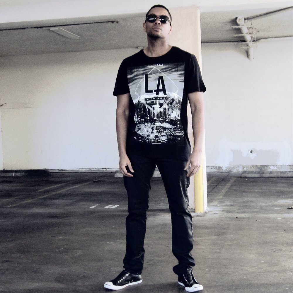 Parking garage shoot of Jeff Jericho